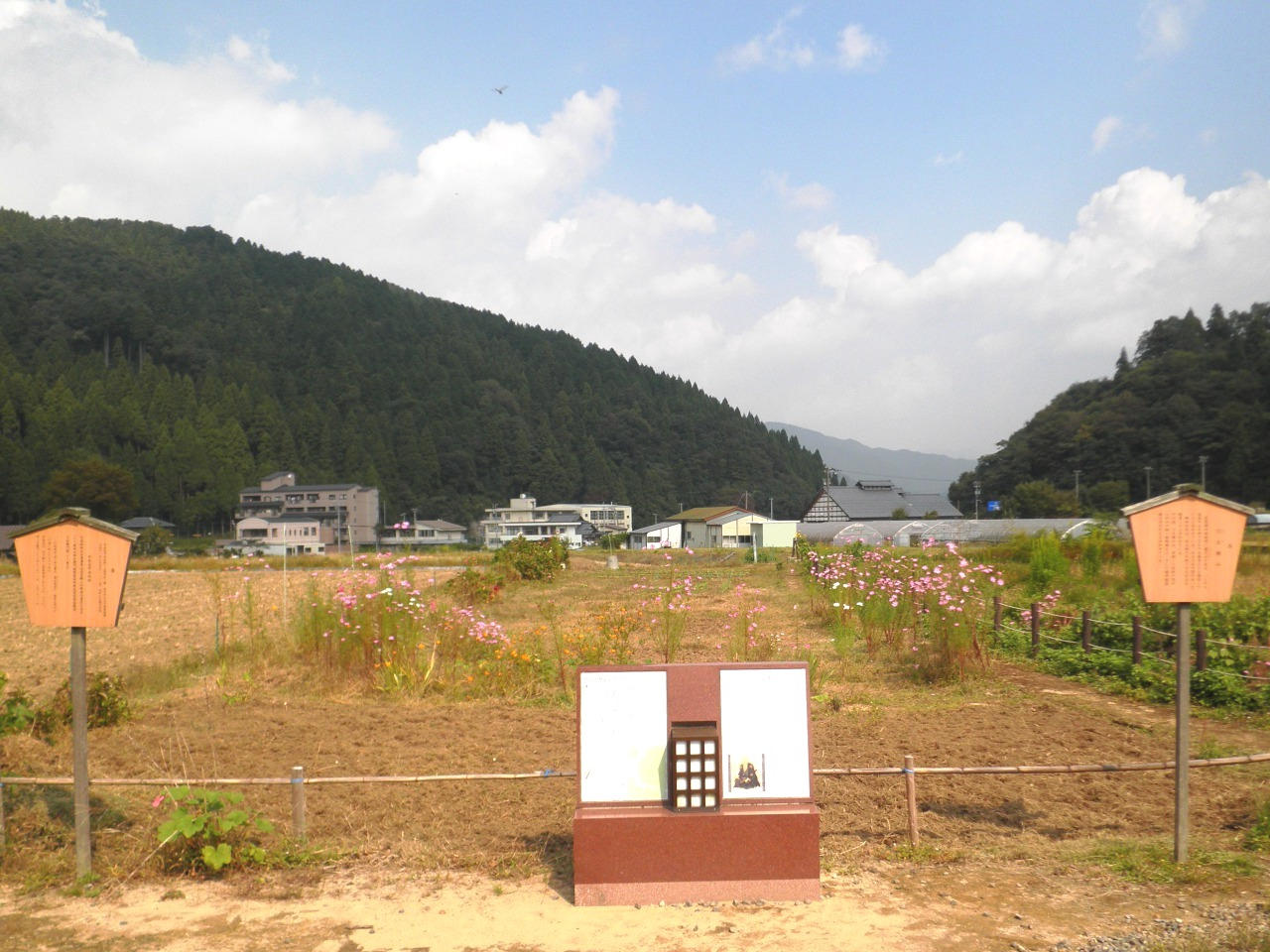 Site of Seigen Dojo in Fukui, Fukui.